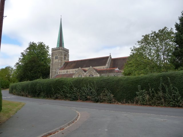 Church of England parish church of St Nicholas, Taplow, Buckinghamshire